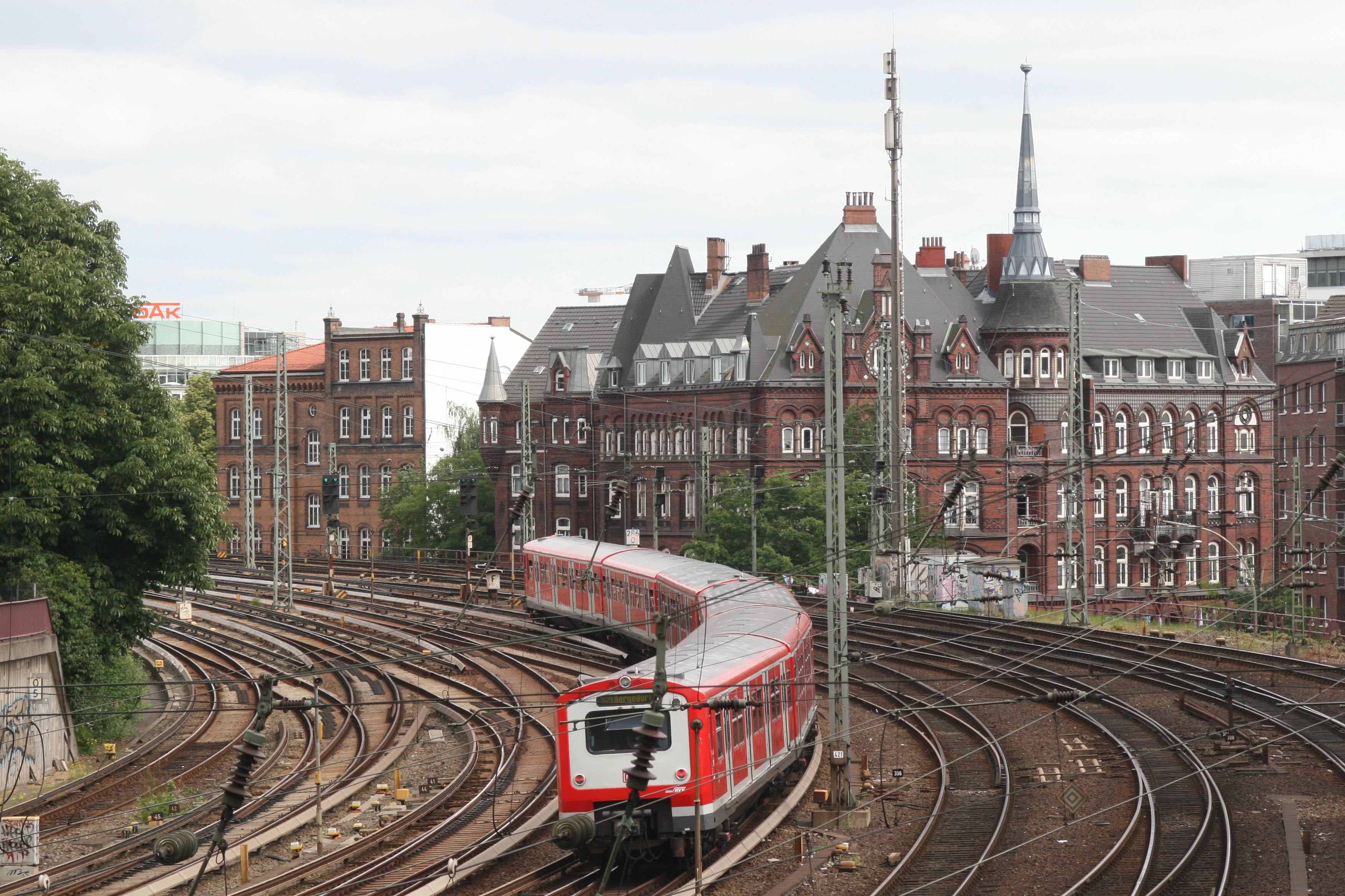 Train track S-Bahn at Hammerbrook, Hamburg, Germany